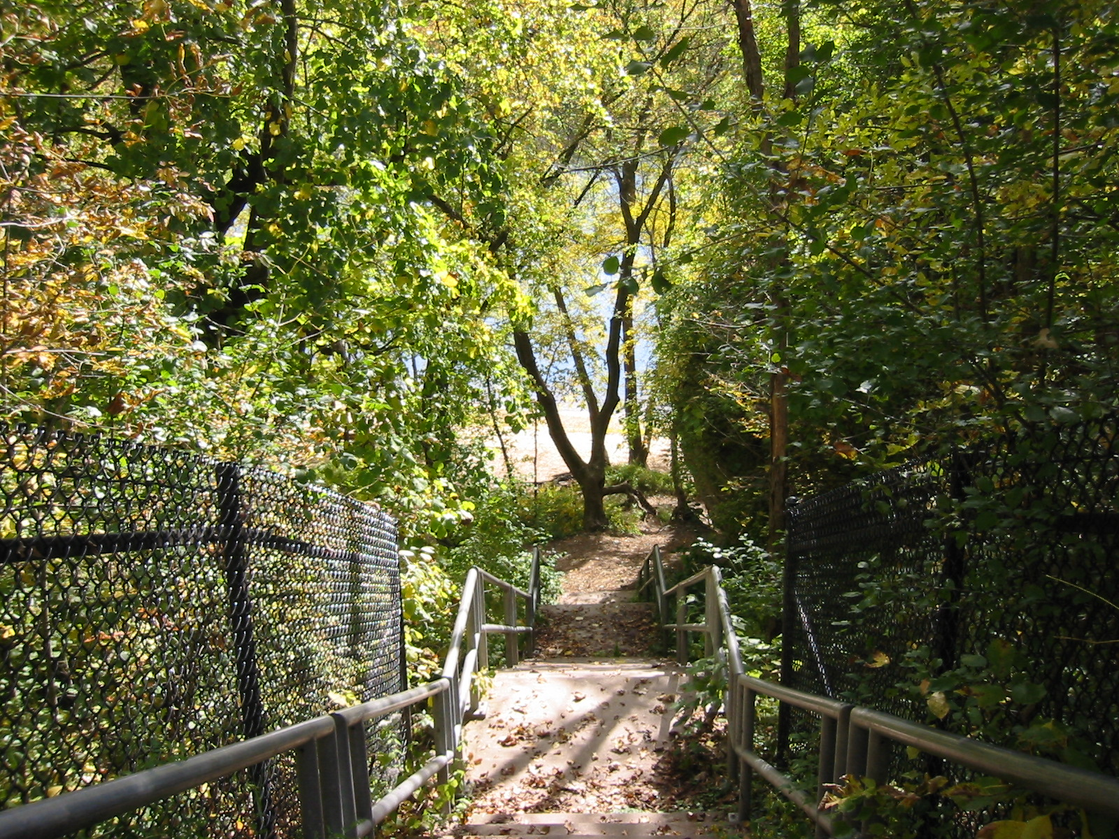 A picture taken at the St. Croix Boom Site just north of Stillwater, Minnesota. This stairway leads to the banks of the St. Croix River where logs floating down the river were sorted and delivered to the lumber companies that had harvested the logs.